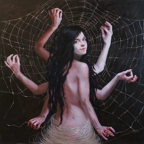 Oil painting of mythological character, Arachne, reimagined through a contemporary feminist lens by artist, Judy Takács.